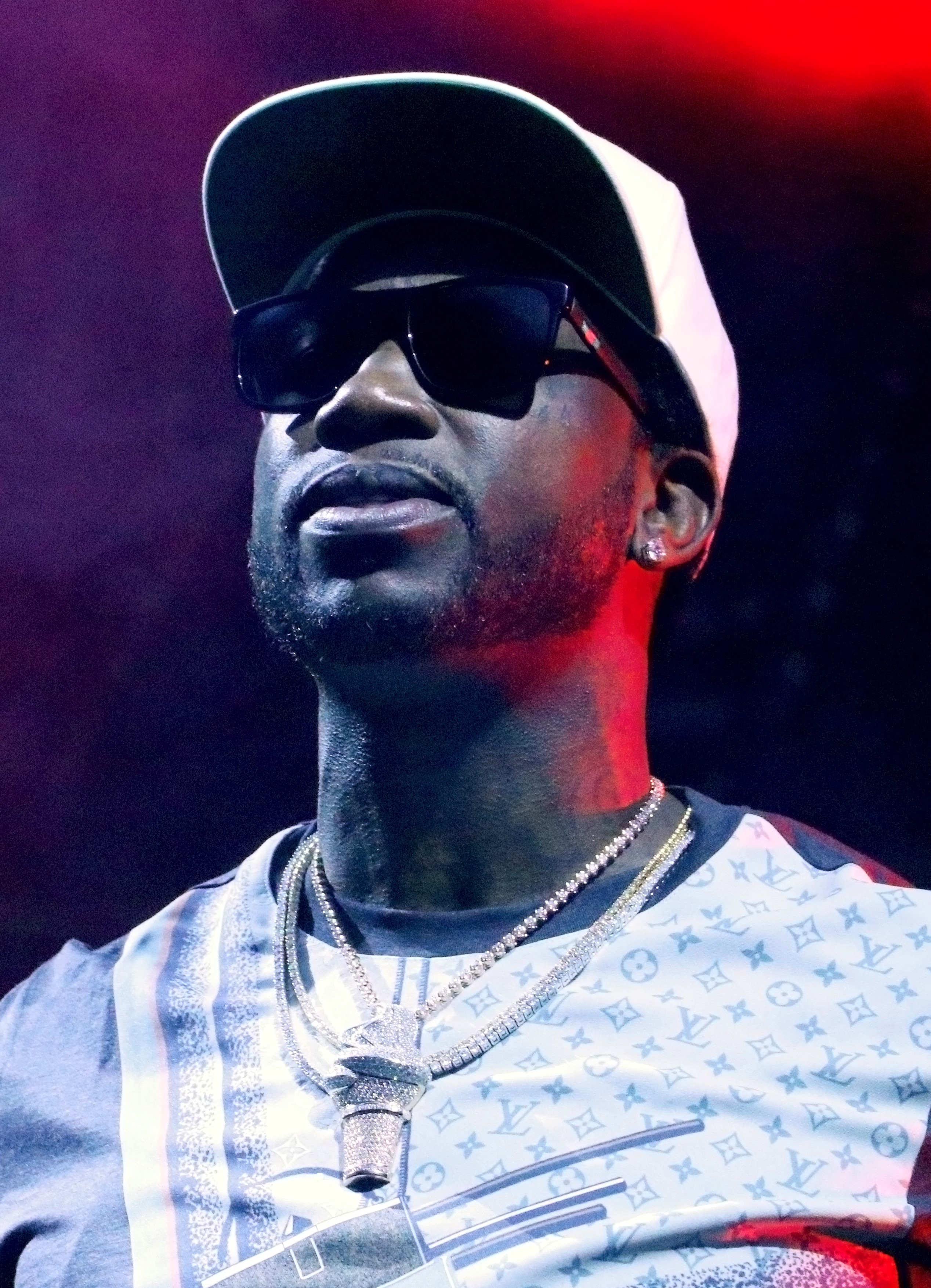 Rap artist Gucci Mane performing at 515 Alive in Des Moines, IA on 8/18/17.